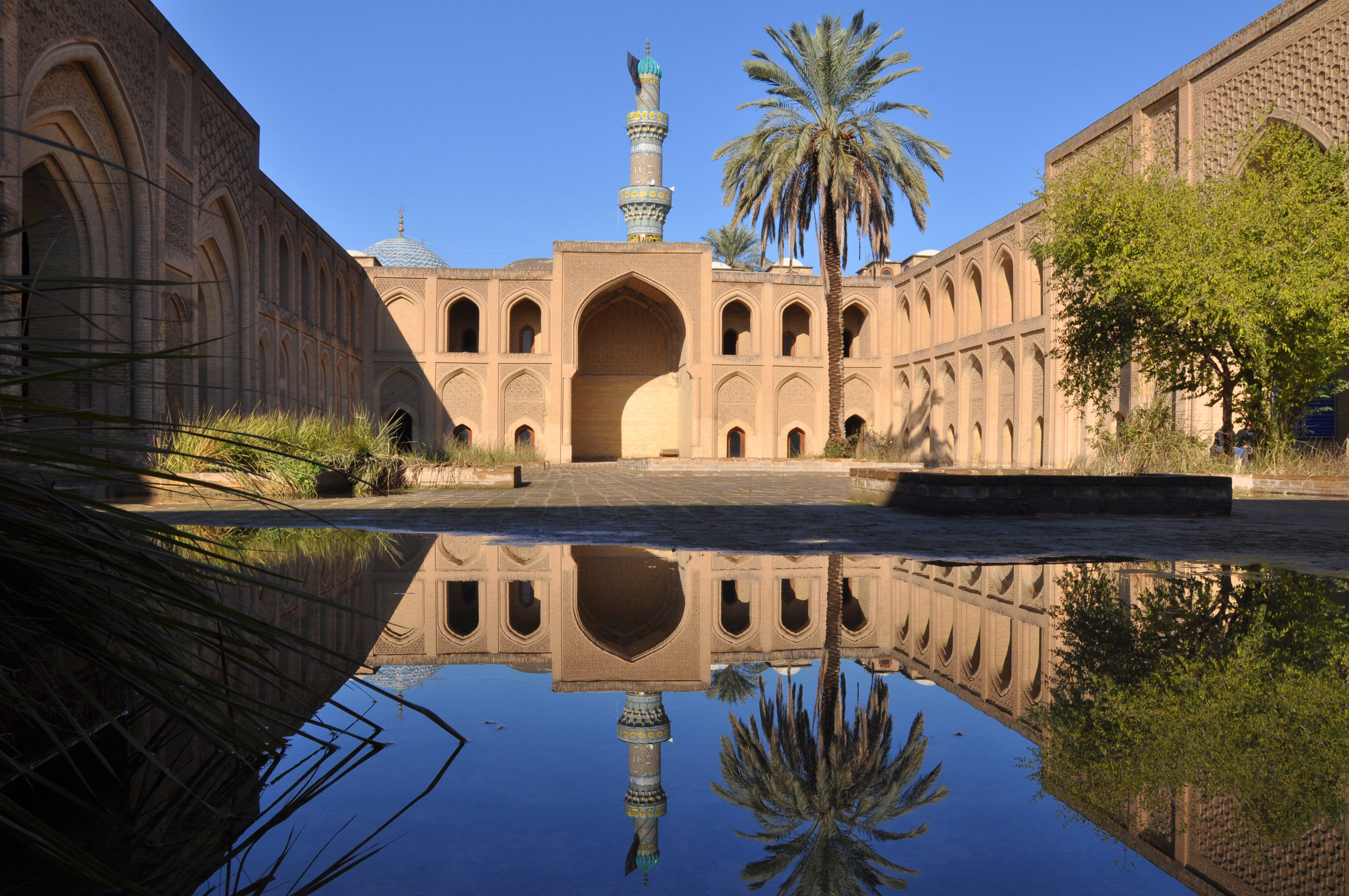 Mustansiriya Madrasah a historical building in Baghdad, Iraq. It was the premises of one of the oldest Islamic institutions of higher learning in the world.